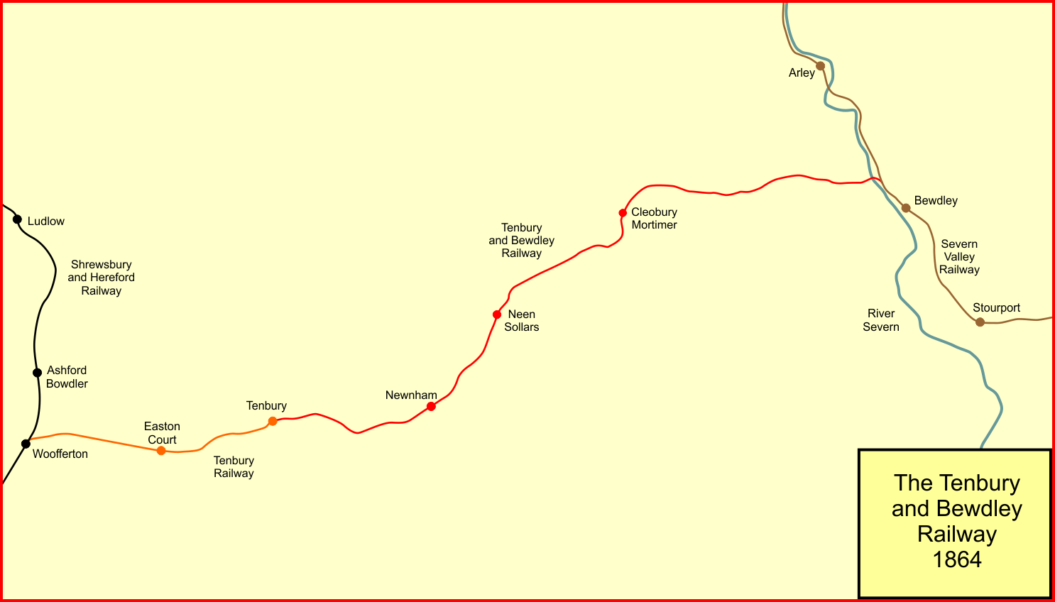 System map of the Tenbury and Bewdley Railway, Worcestershire, England, in 1864